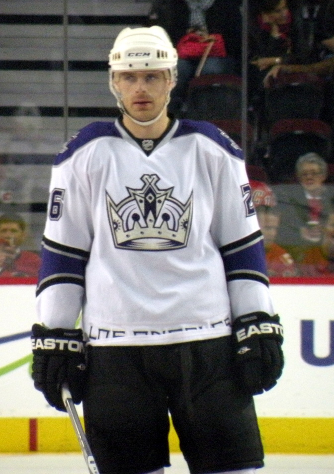 Los Angeles Kings forward Michal Handzus during warmup prior to a National Hockey League game against the Calgary Flames in Calgary.